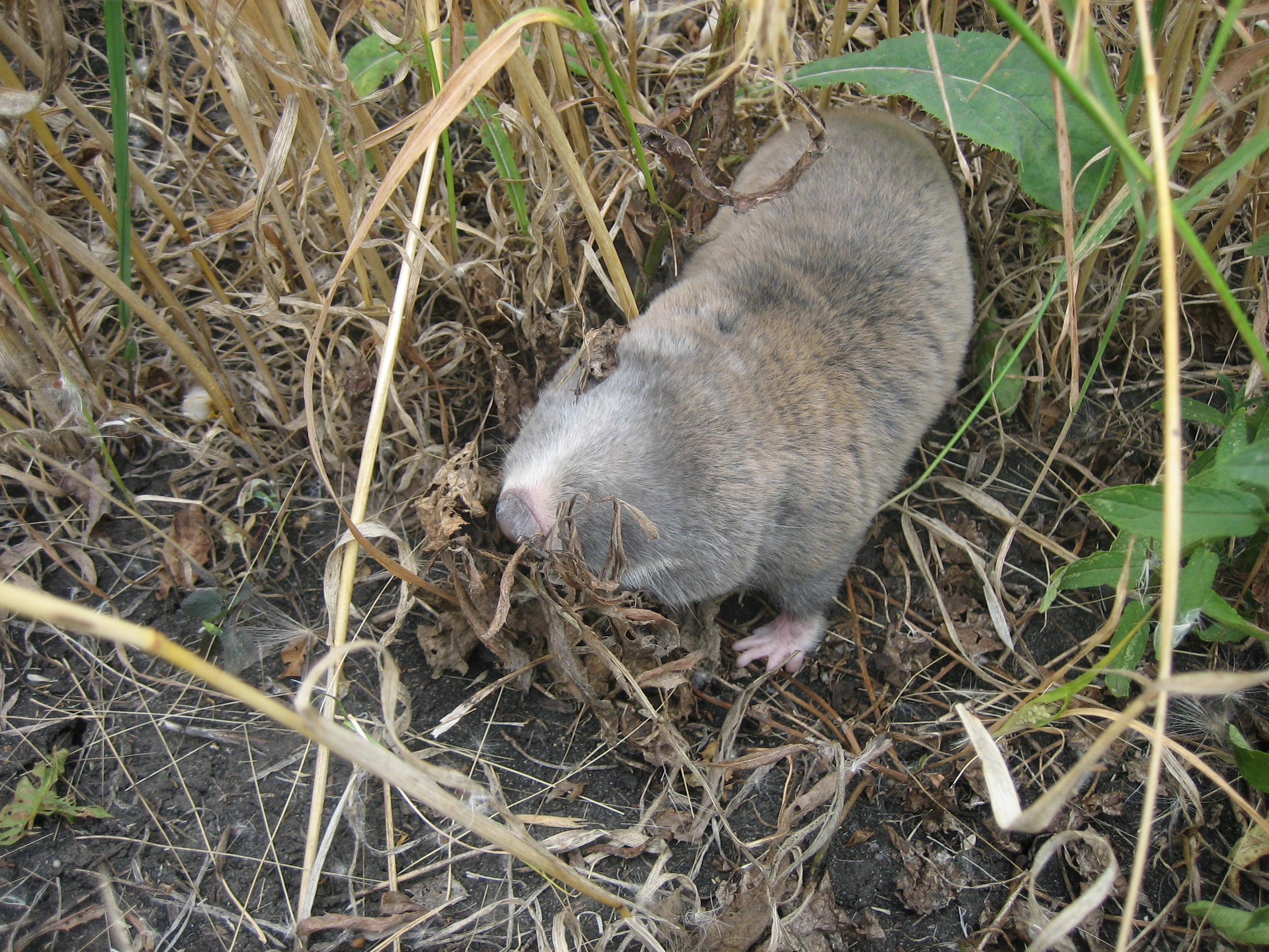 Spalax microphthalmus